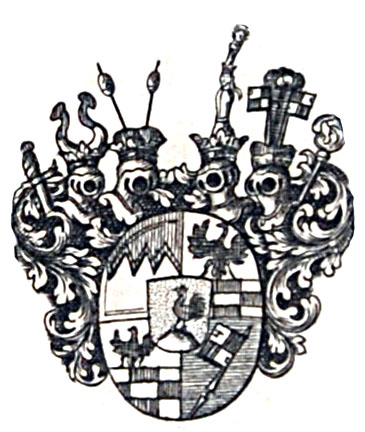 Coat of Arms Poppo I. († 14./15. Februar 961) Imperial Chancler 931 to 940 and 941-961Bishop of Würzburg.